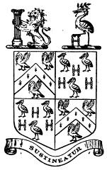 Arms of the Cullum Baronets of Hardwick House, Suffolk, England. From 'The Visitation of England and Wales,' Joseph Jackson Howard, Maltravers Herald Extraordinary, Volume I, Privately Printed, 1893.